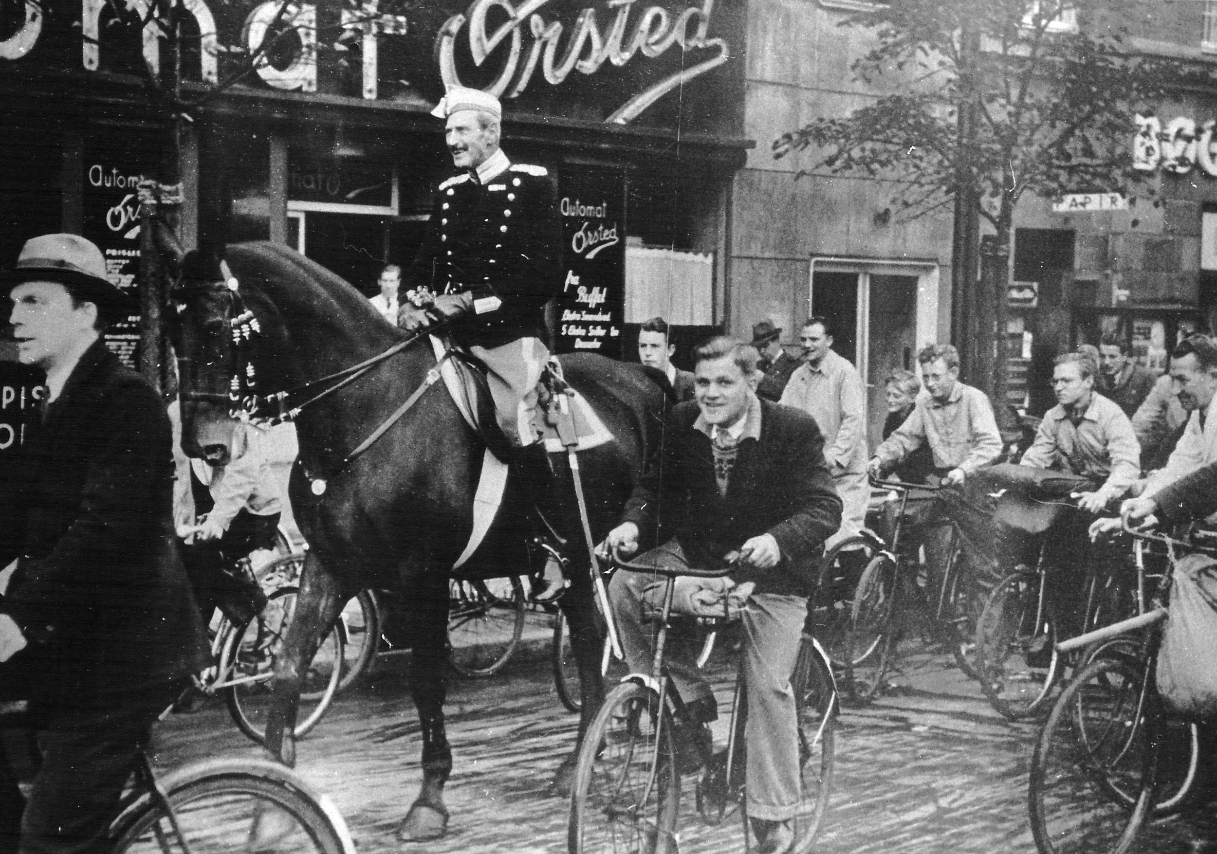 King Christian X riding a horse in 1940s at Gyldenløvesgade in Copenhagen